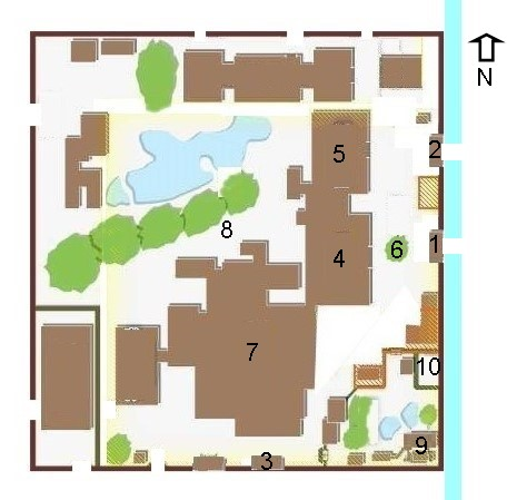 Layout Nishi Hongan-ji Kyoto